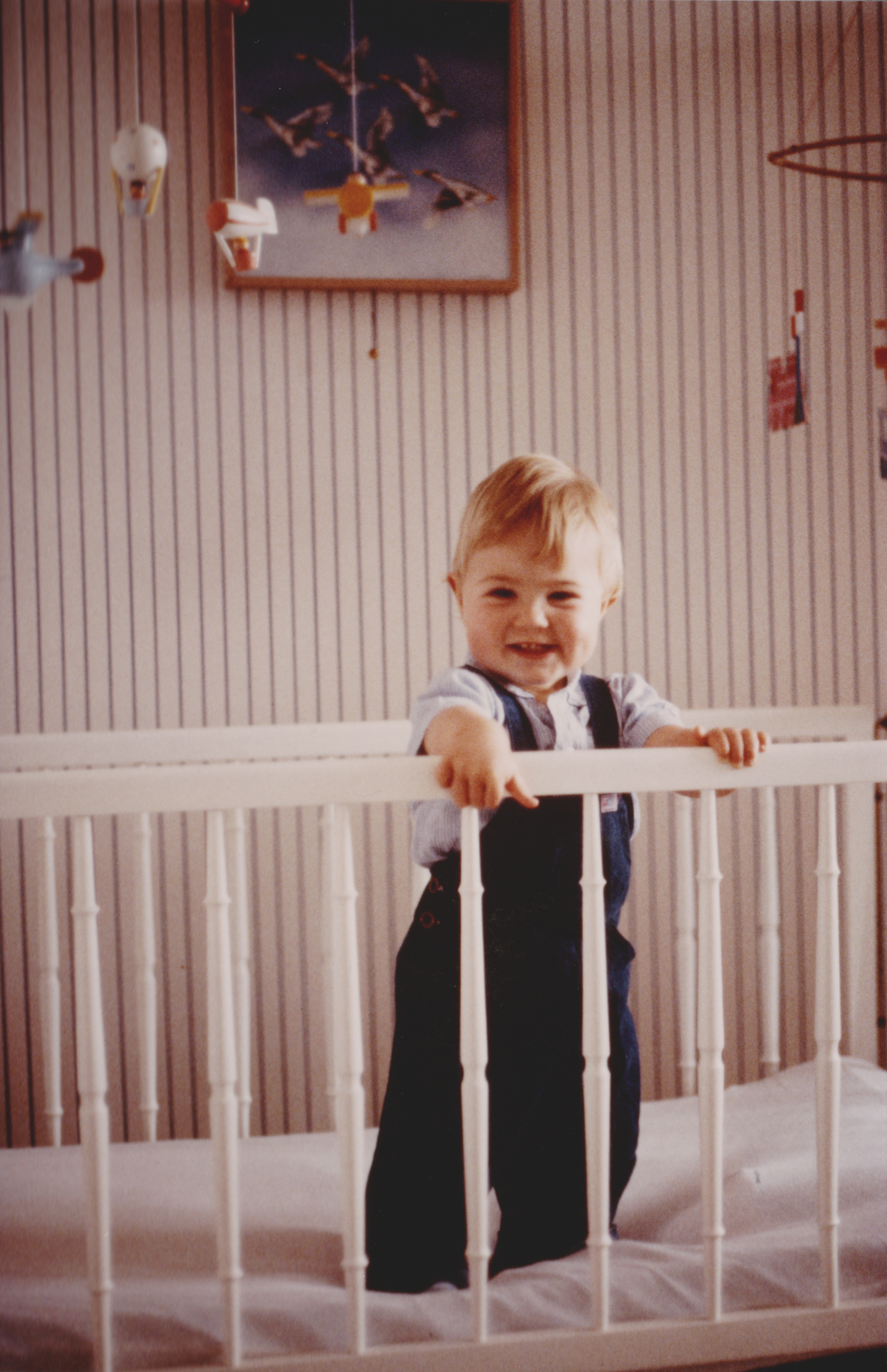 Baby standing in bed - 1983